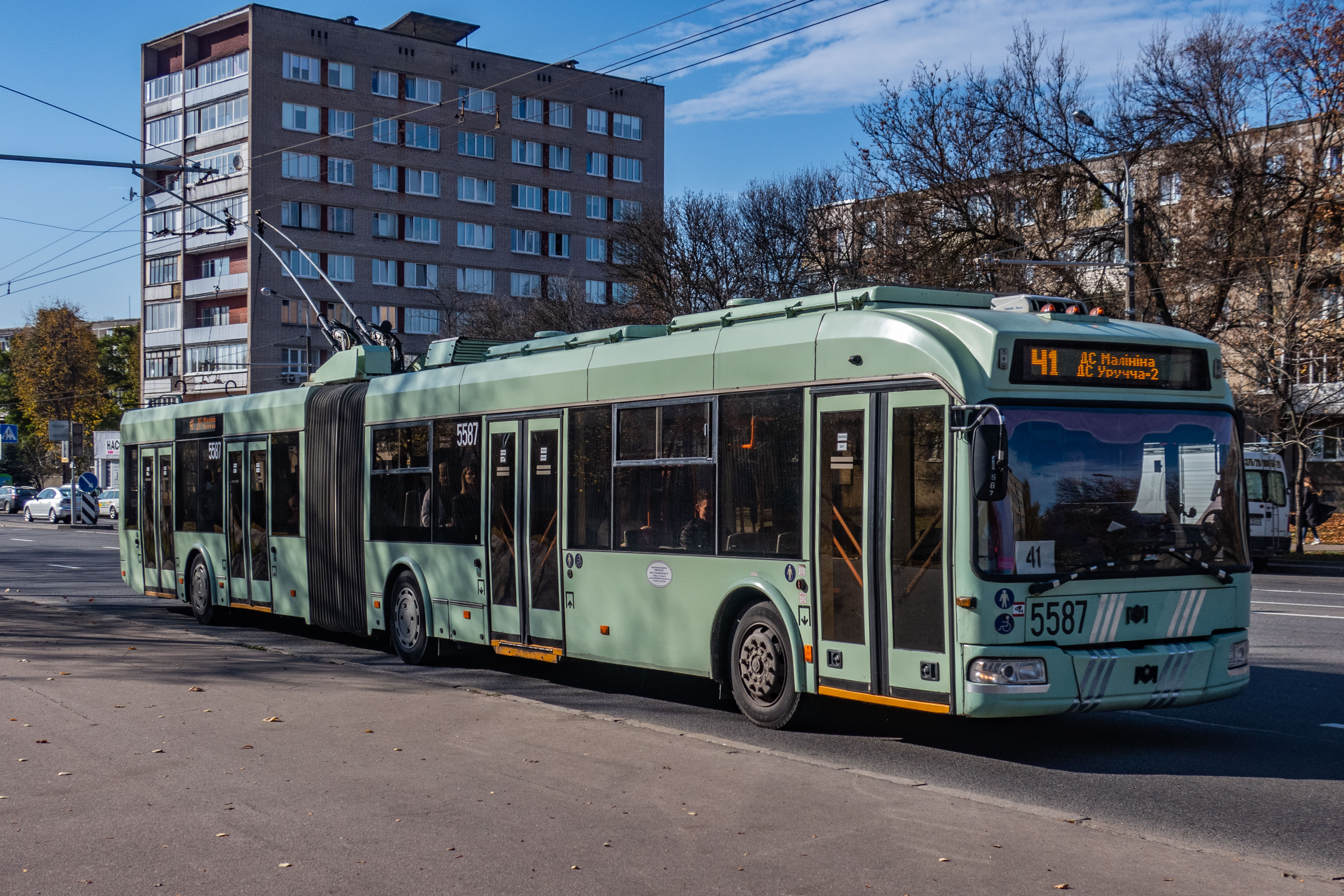 Belkommunmash AKSM-333 trolleybus. Minsk, Belarus